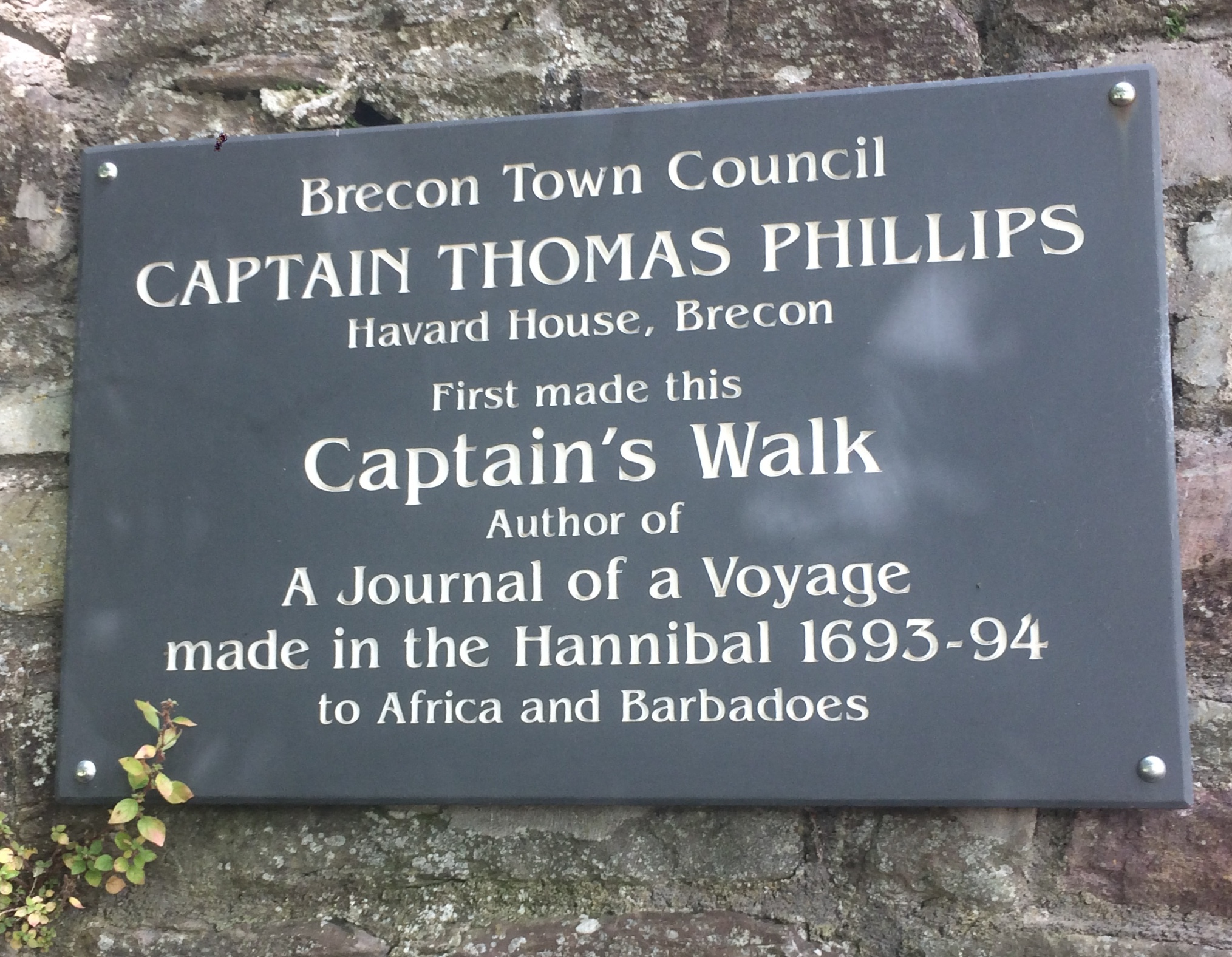 The plaque is controversial because it does not state why Captain Phillips is famous, which is because in was a cruel slave trader. The plaque is miss-leading by implying Phillips was a great sea fairer and writer of a journal.